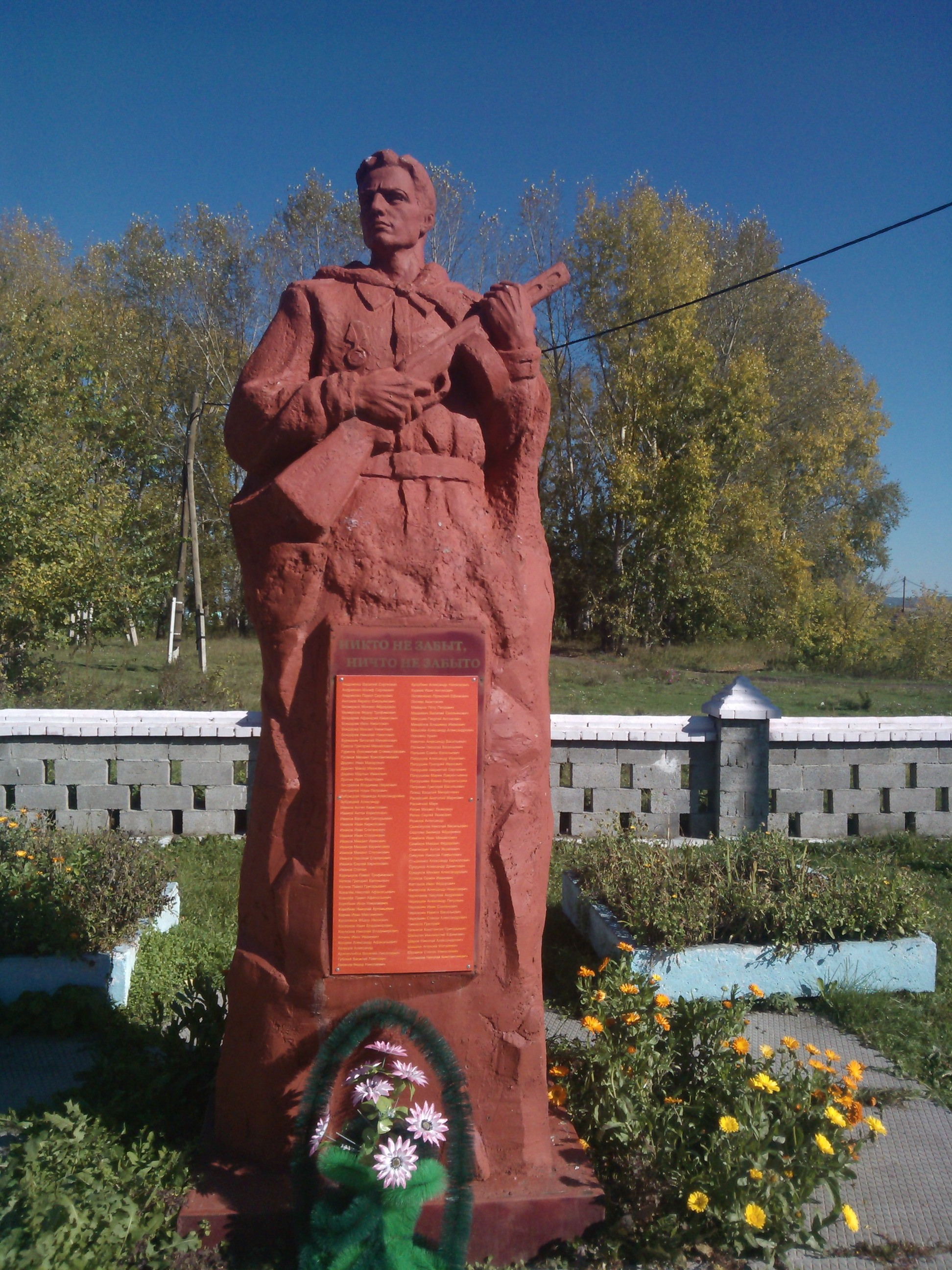 Voin-Pobeditel